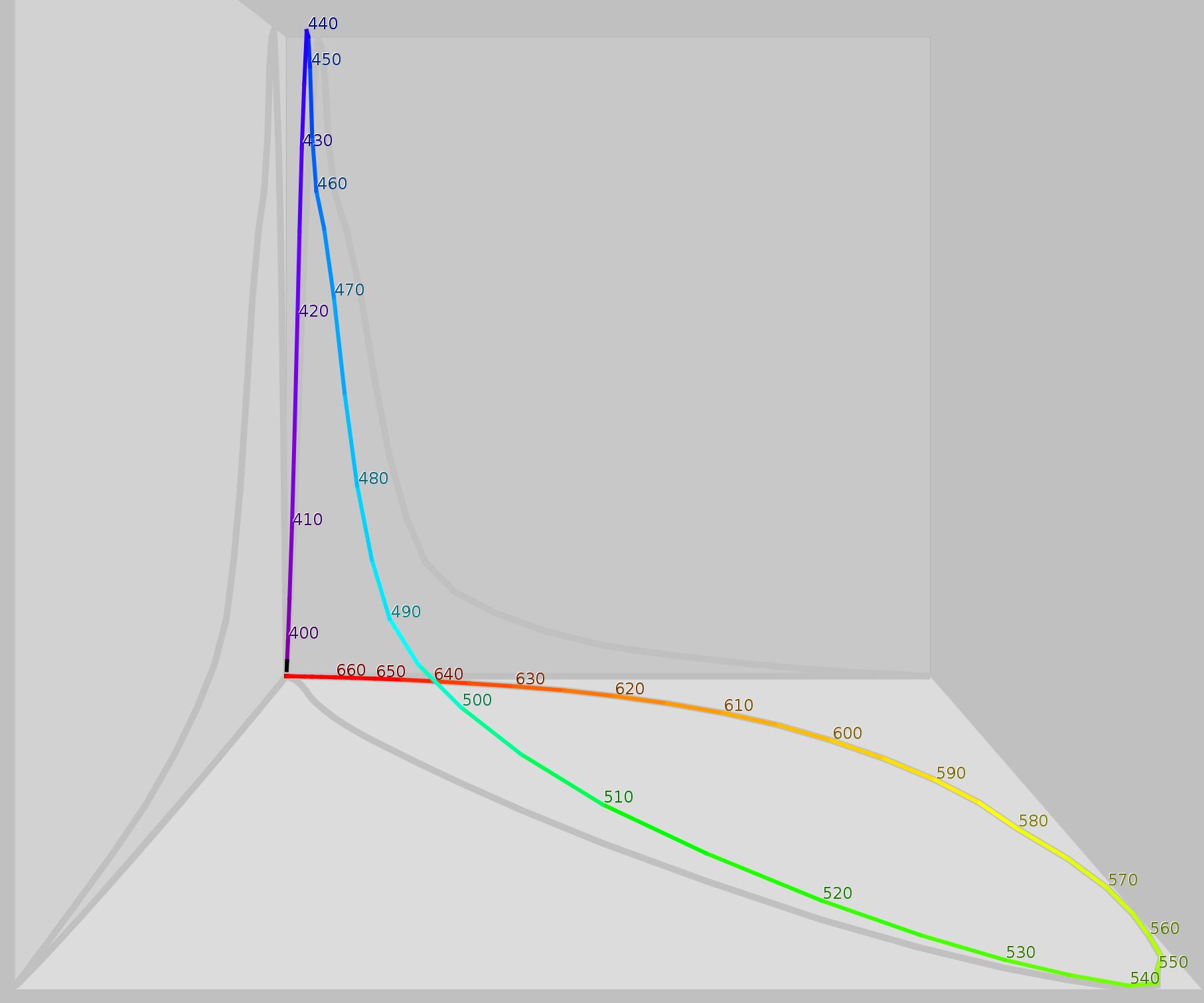 The spectrum locus (cone response to monochromatic colors) displayed as a 2D projection of a 3D space. The axes represent the L-, M- and S-cones sensitivity (right, to, up, respectively).